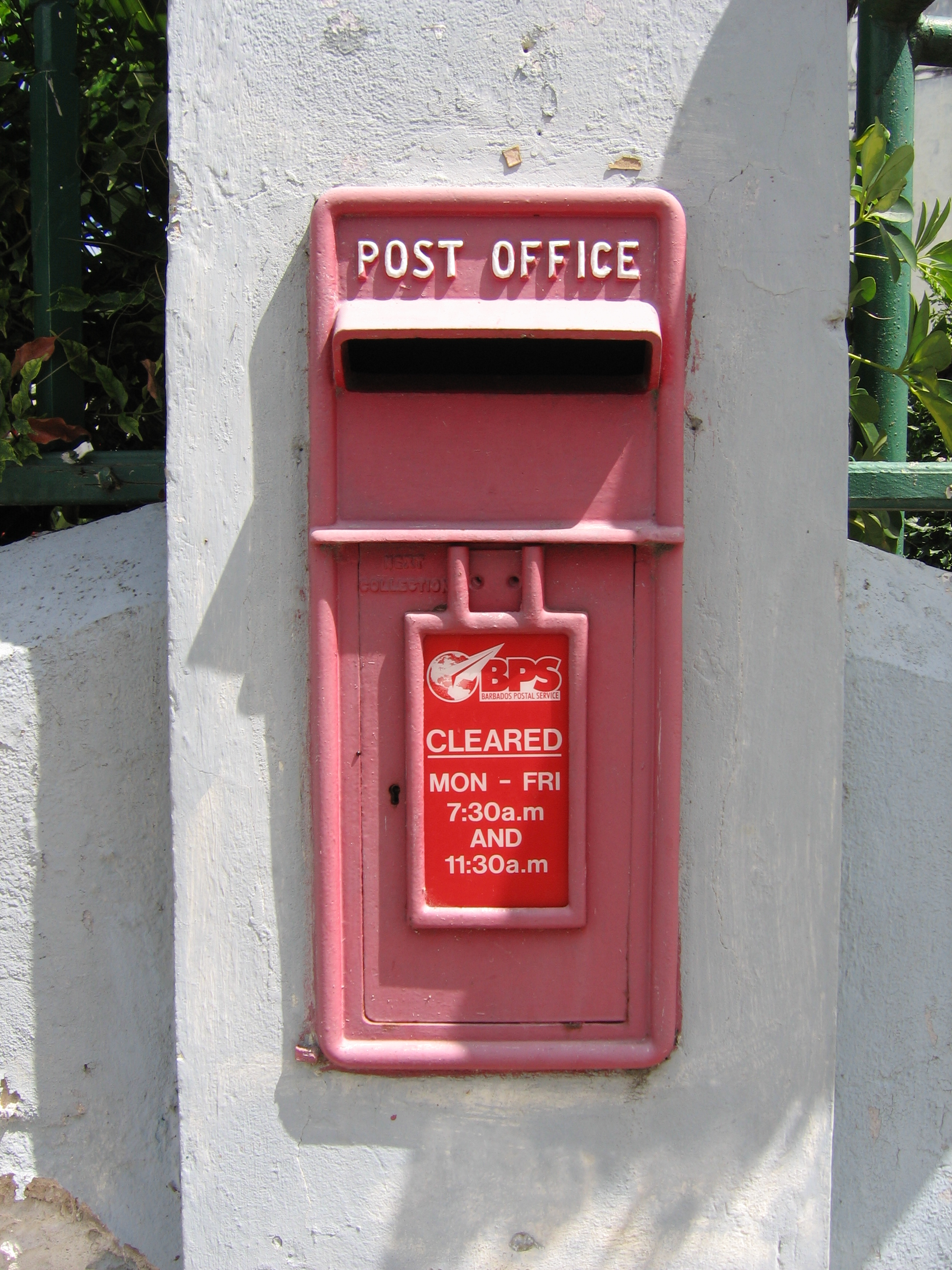 Post box in Speightstown, Saint Peter Parish, Barbados.